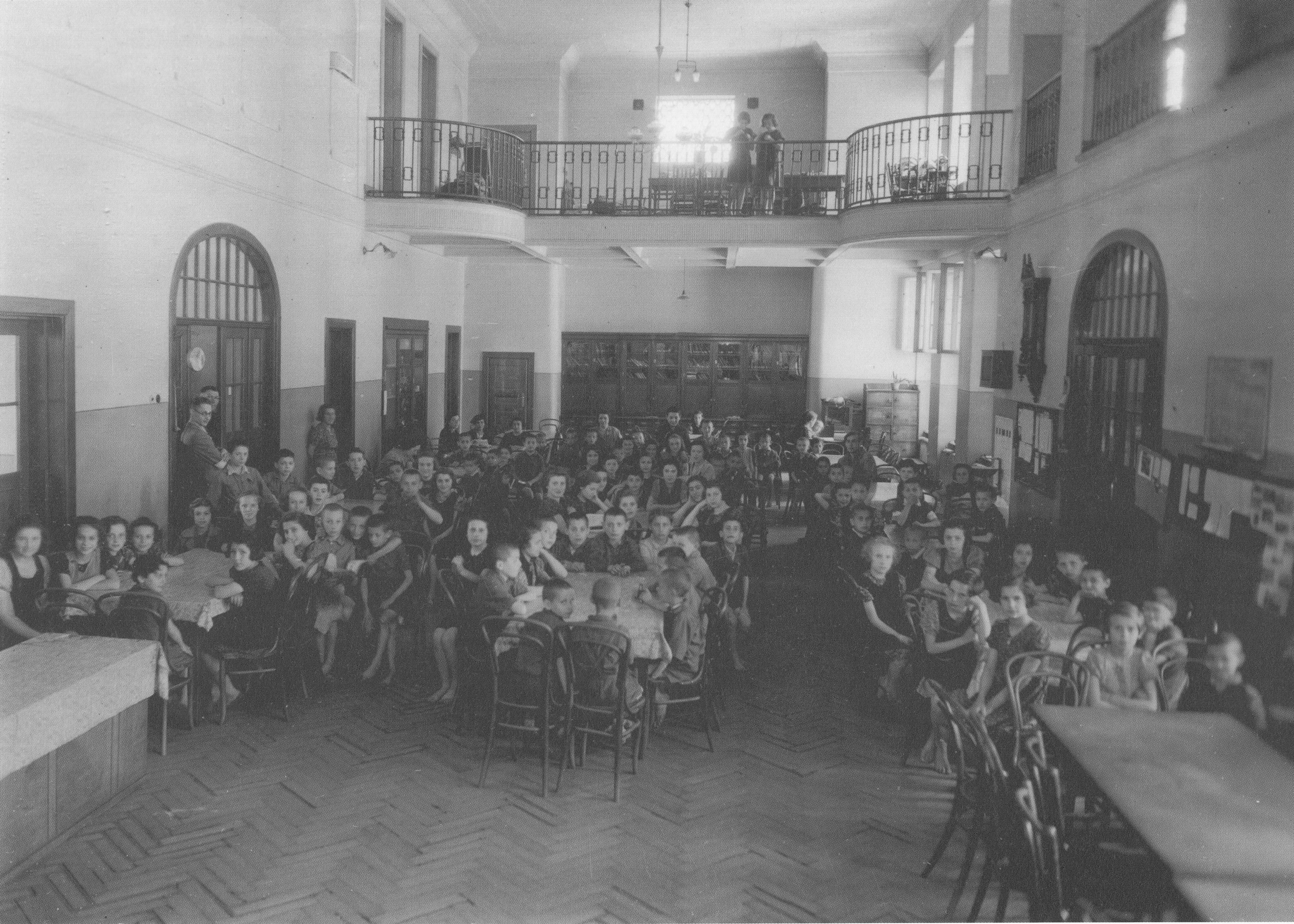 Children in Dom Sierot orphanage in Warsaw